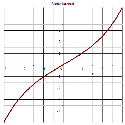 Sinhc integral 2D plot